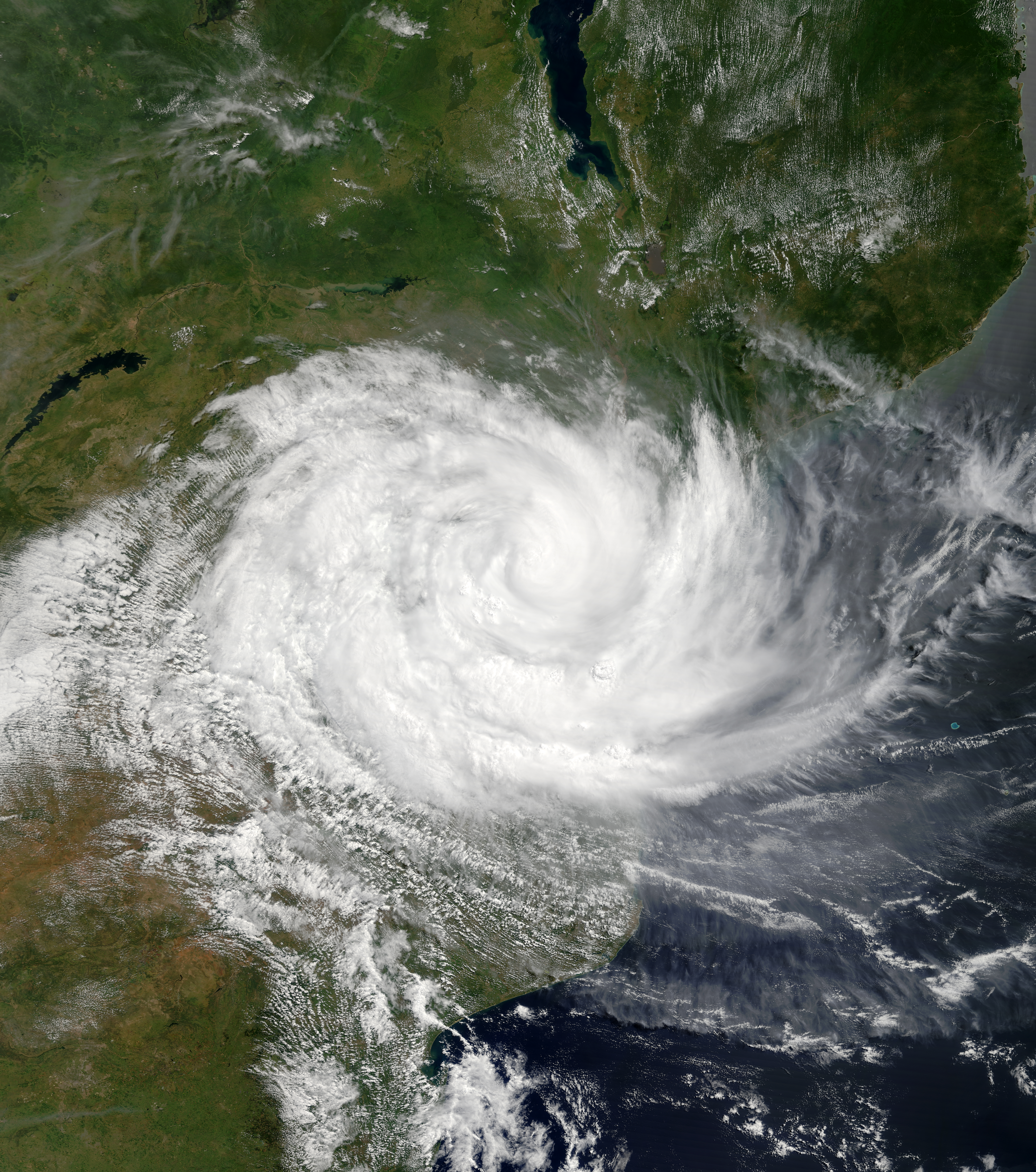 Cyclone Idai on March 15, 2019